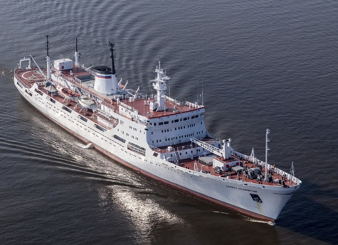 Admiral Vladimirskiy.